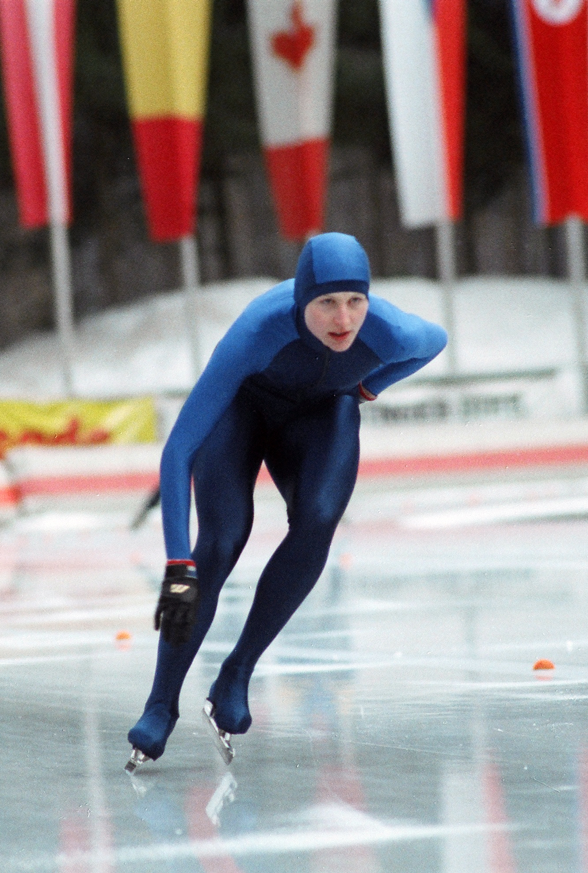 Angela Hauck-Stahnke,German speedskater